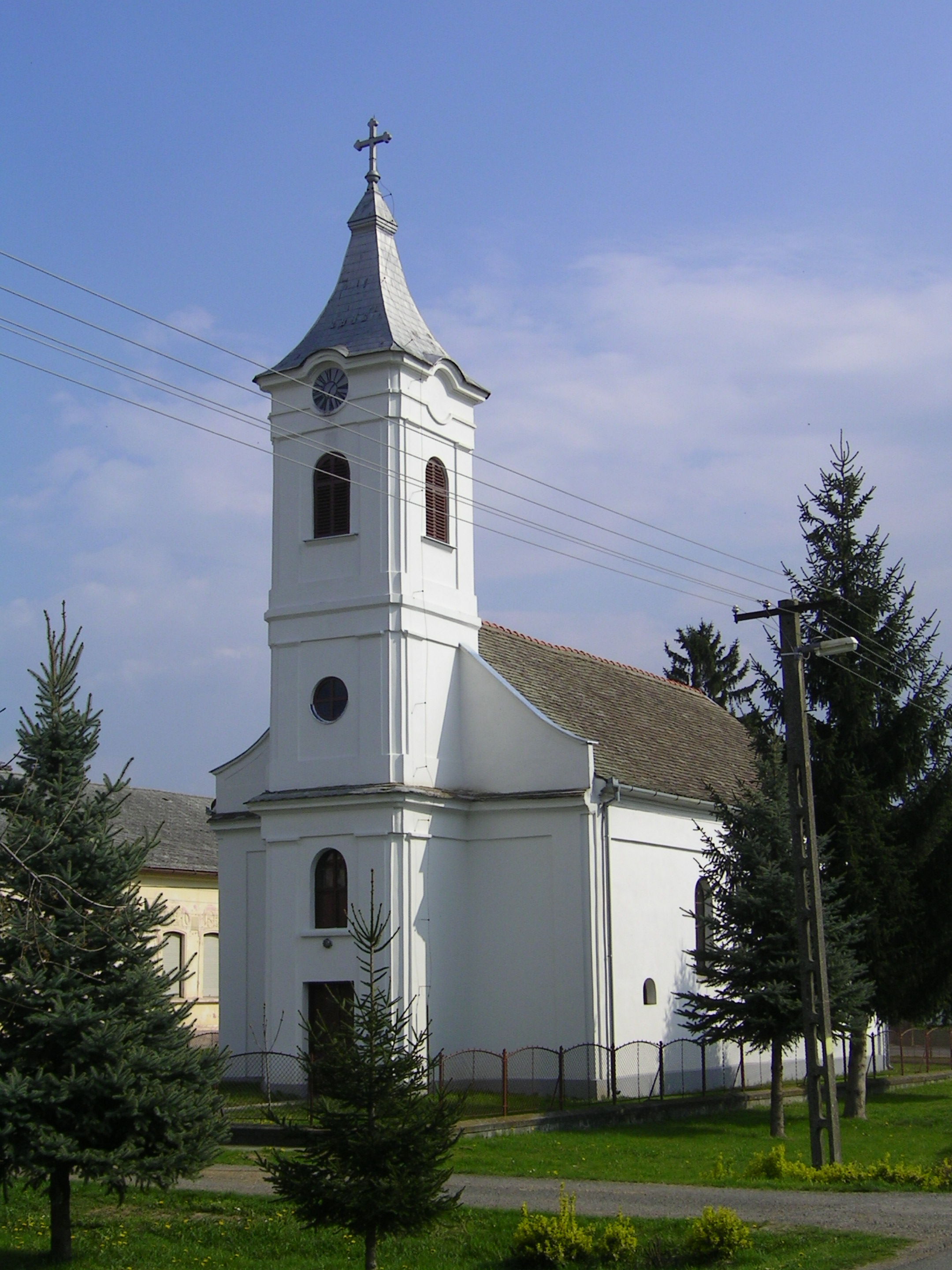 Lutheran church in Ivándárda, Hungary